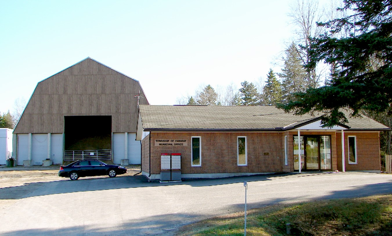 Town hall of Faraday Township, Ontario, Canada